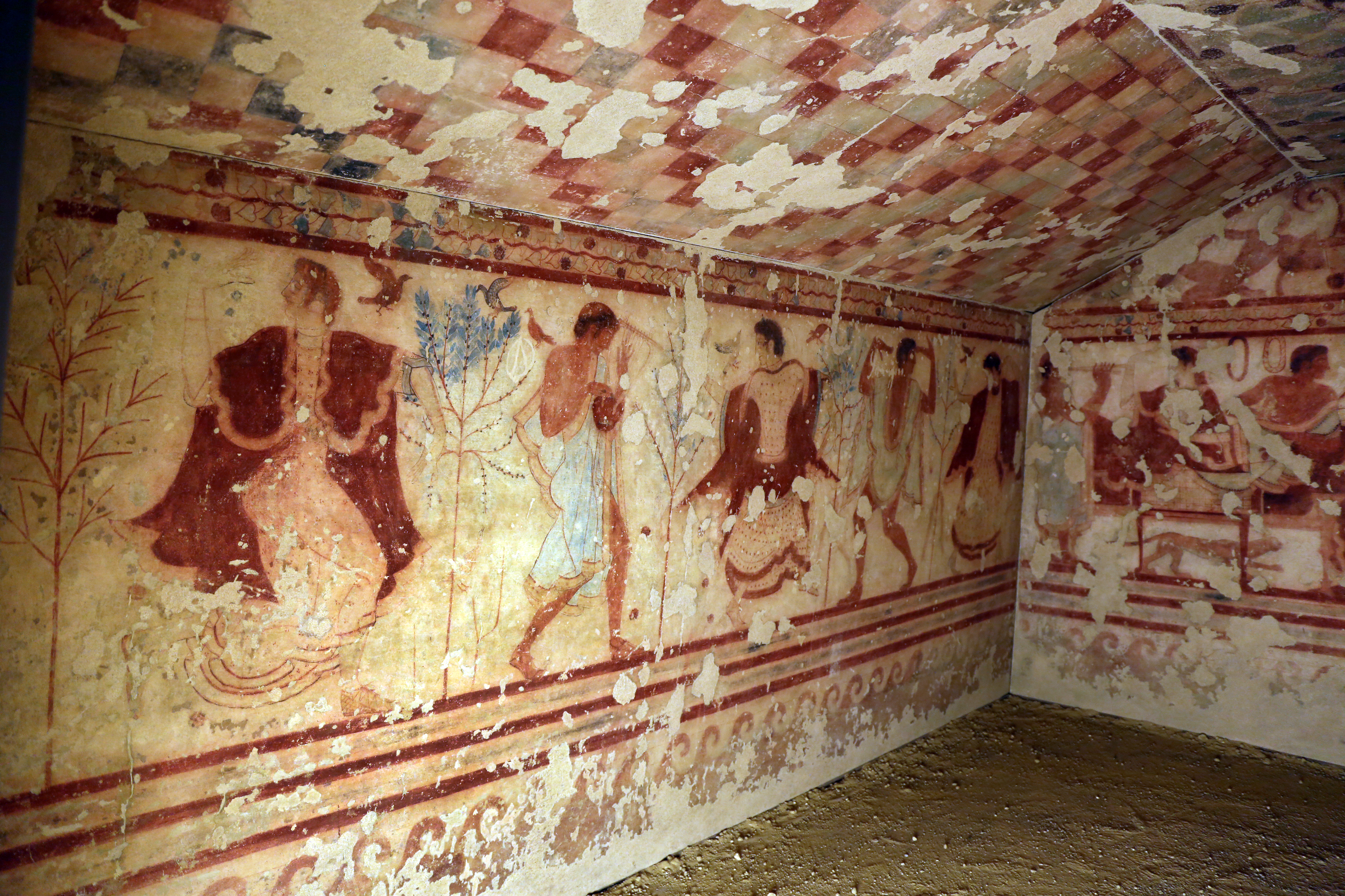 Etruscan antiquities the Museo archeologico nazionale (Tarquinia)